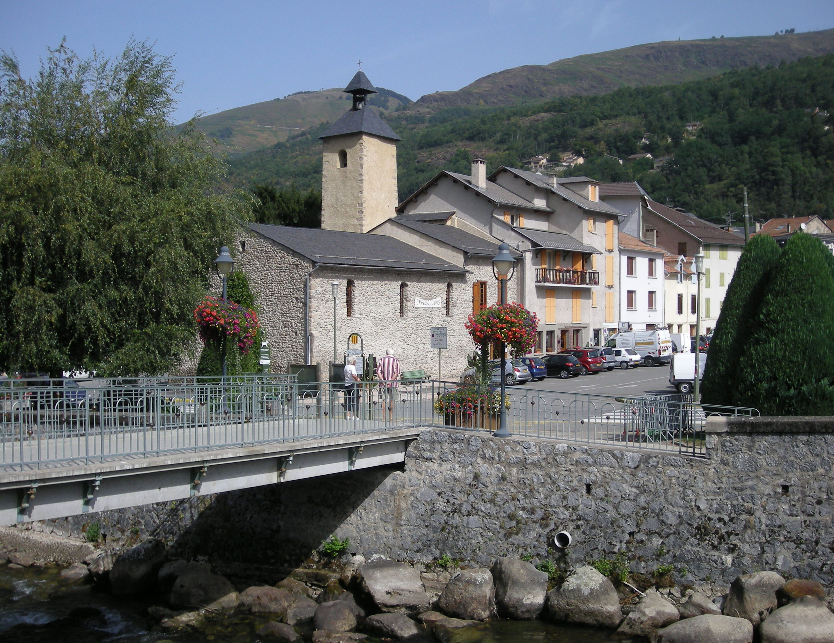 Footbridge over Oriège River in Ax-les-Thermes, Ariège, France.